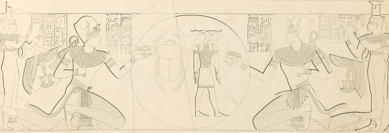 Drawing from tomb KV18, over the entrance: pharaoh Ramesses X worships Khepri and a ram-headed god; partially reconstructed by Lepsius. Valley of the Kings, Reign of Ramesses X, 20th Dynasty, New Kingdom. [Lepsius' Denkmaeler, Abtheilung III (Band VII), pl. 240]